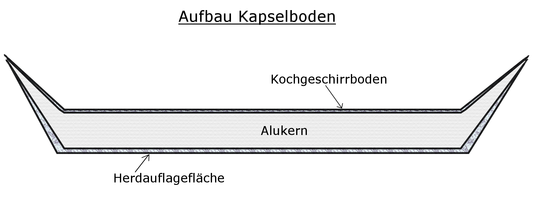 Schematic illustration of a capsule base. Representation of herd bearing surface, aluminium core and cookware base.